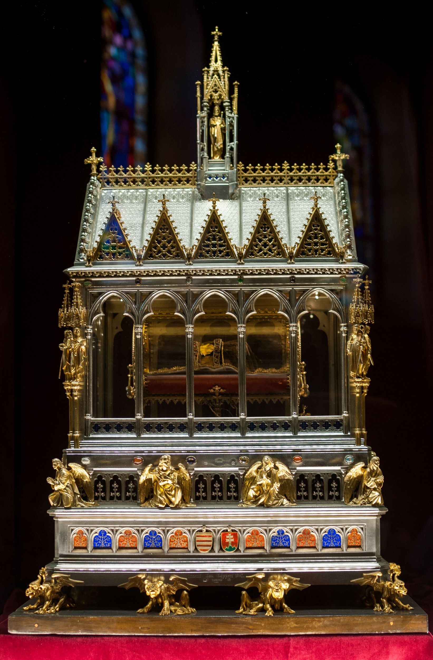 Budapest Hungary